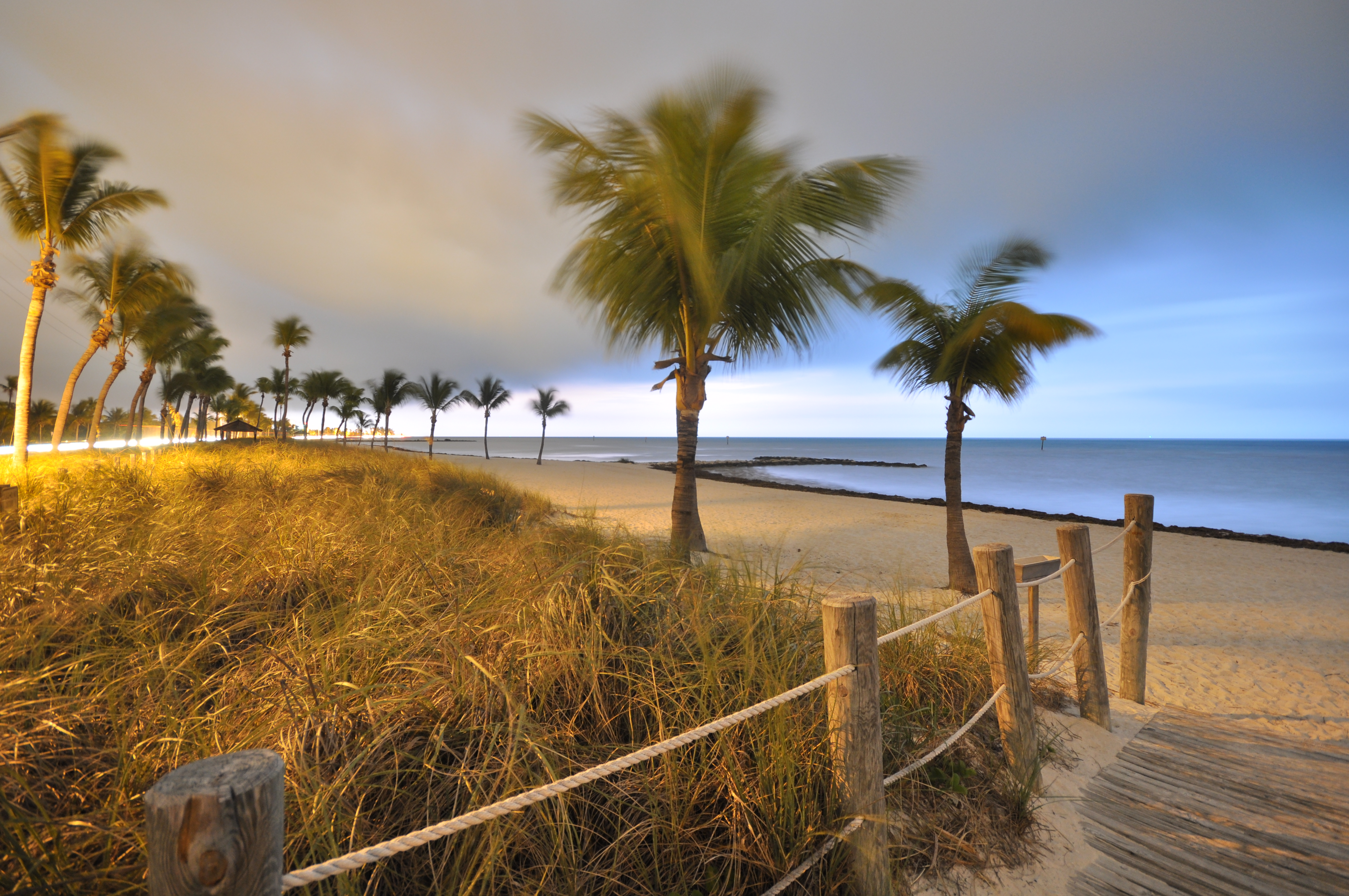 Smathers Beach, Key West, Florida, USA, in the early morning (before sunrise) as a weak thunderstorm approaches off the southeastern Gulf of Mexico.